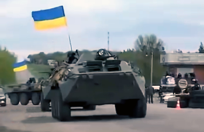 Ukrainian government troops checkpoint in Donbass.